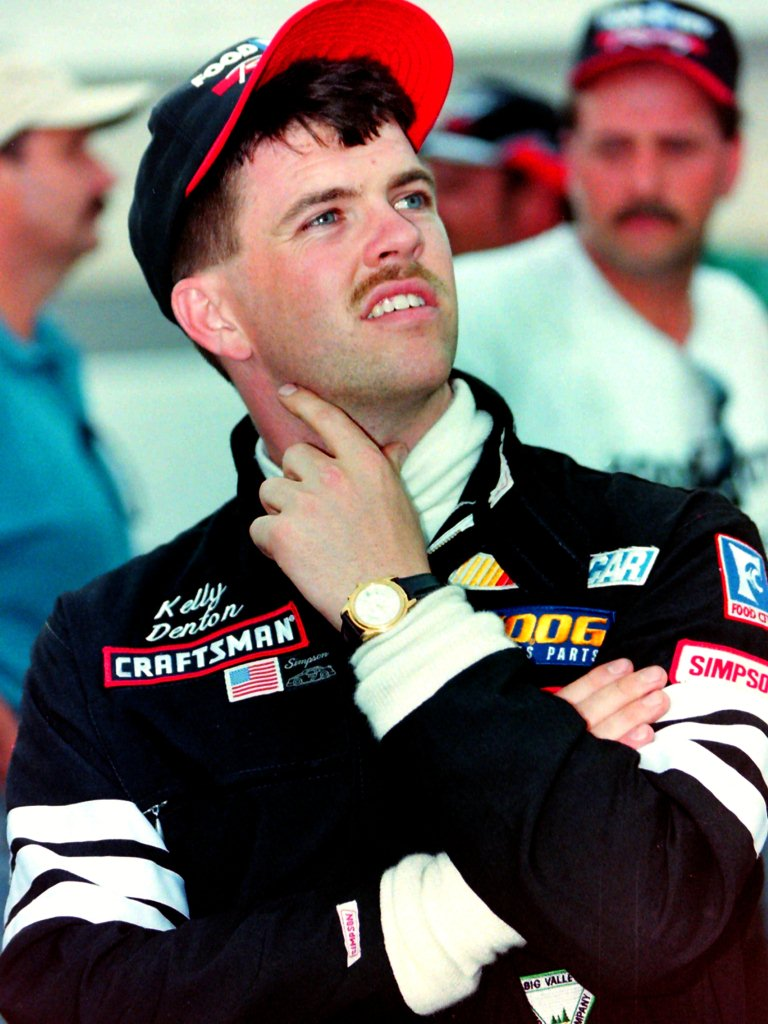 NASCAR driver Kelly Denton at the 1997 Loadhandler 200 at Bristol International Raceway, June 21, 1997.